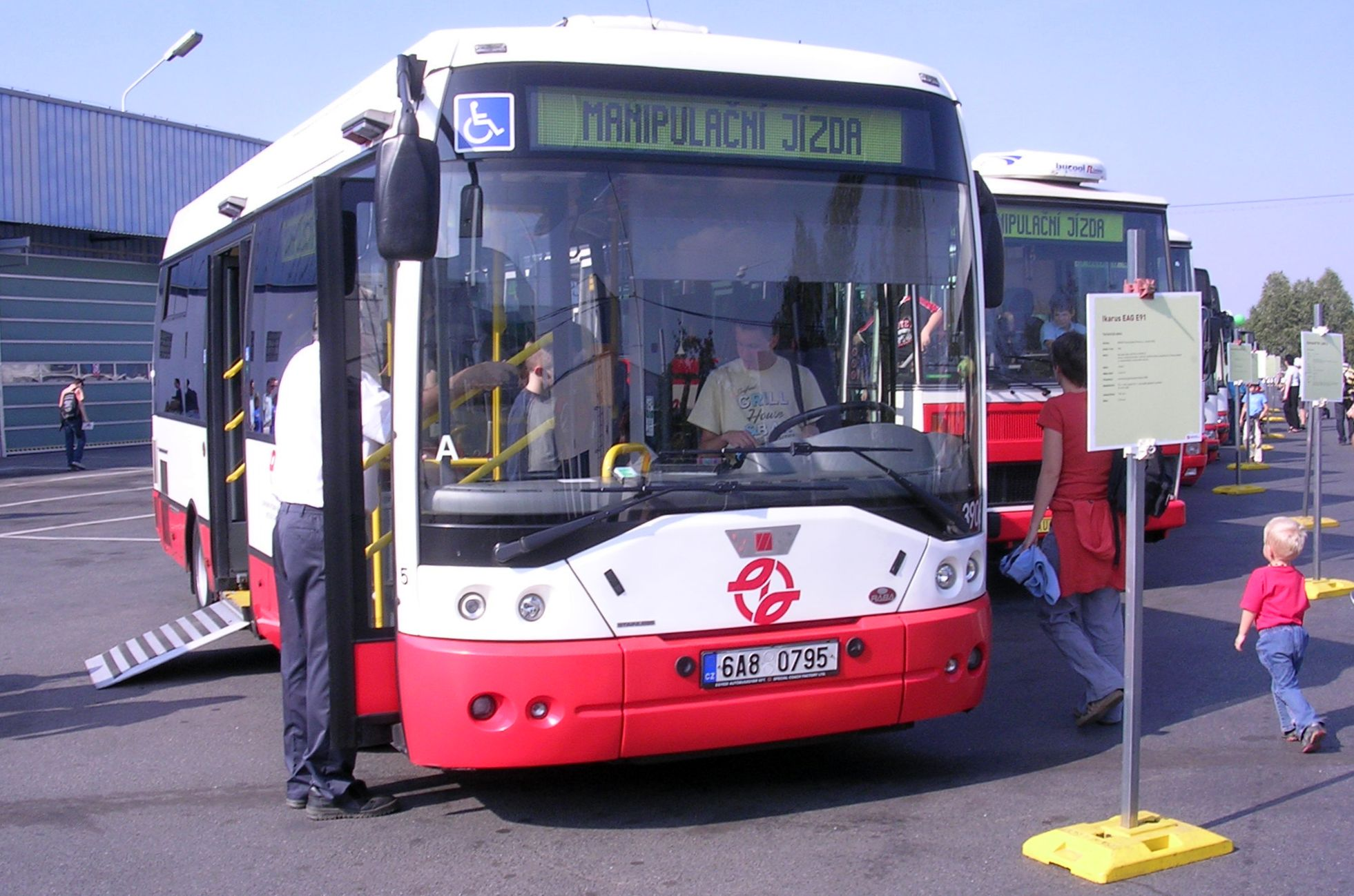 Řepy, Prague, the Czech Republic. Open Doors Day in Řepy bus depot. Ikarus E91.